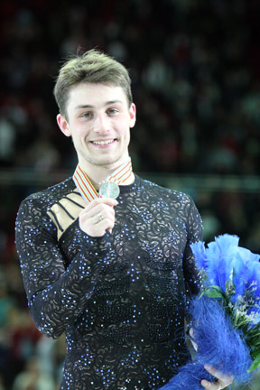 Brian JOUBERT at the podium 2008 World Championships